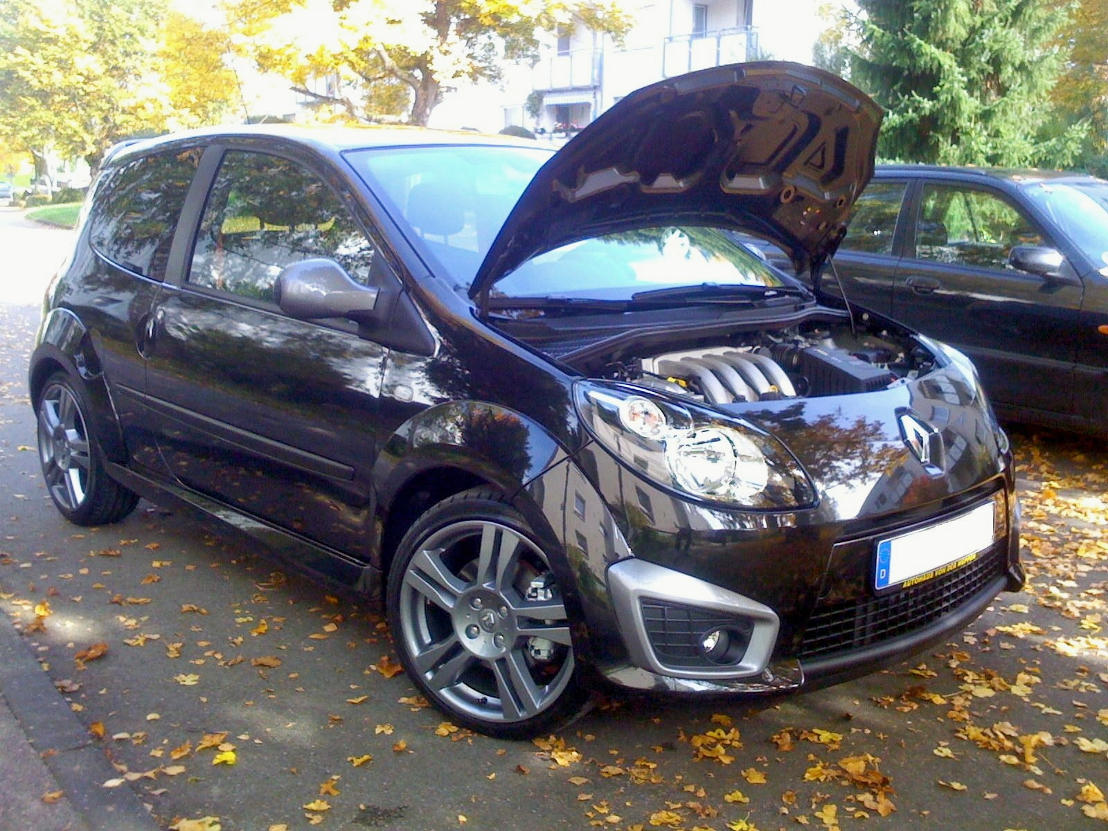 Renault Twingo RS